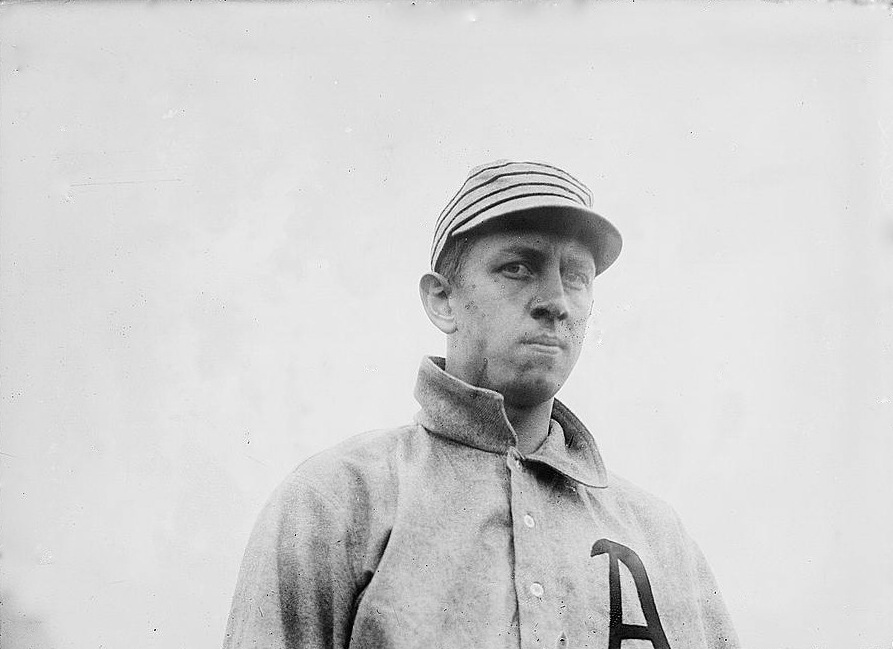 Philadelphia Athletics 2nd Baseman Eddie Collins in 1911.